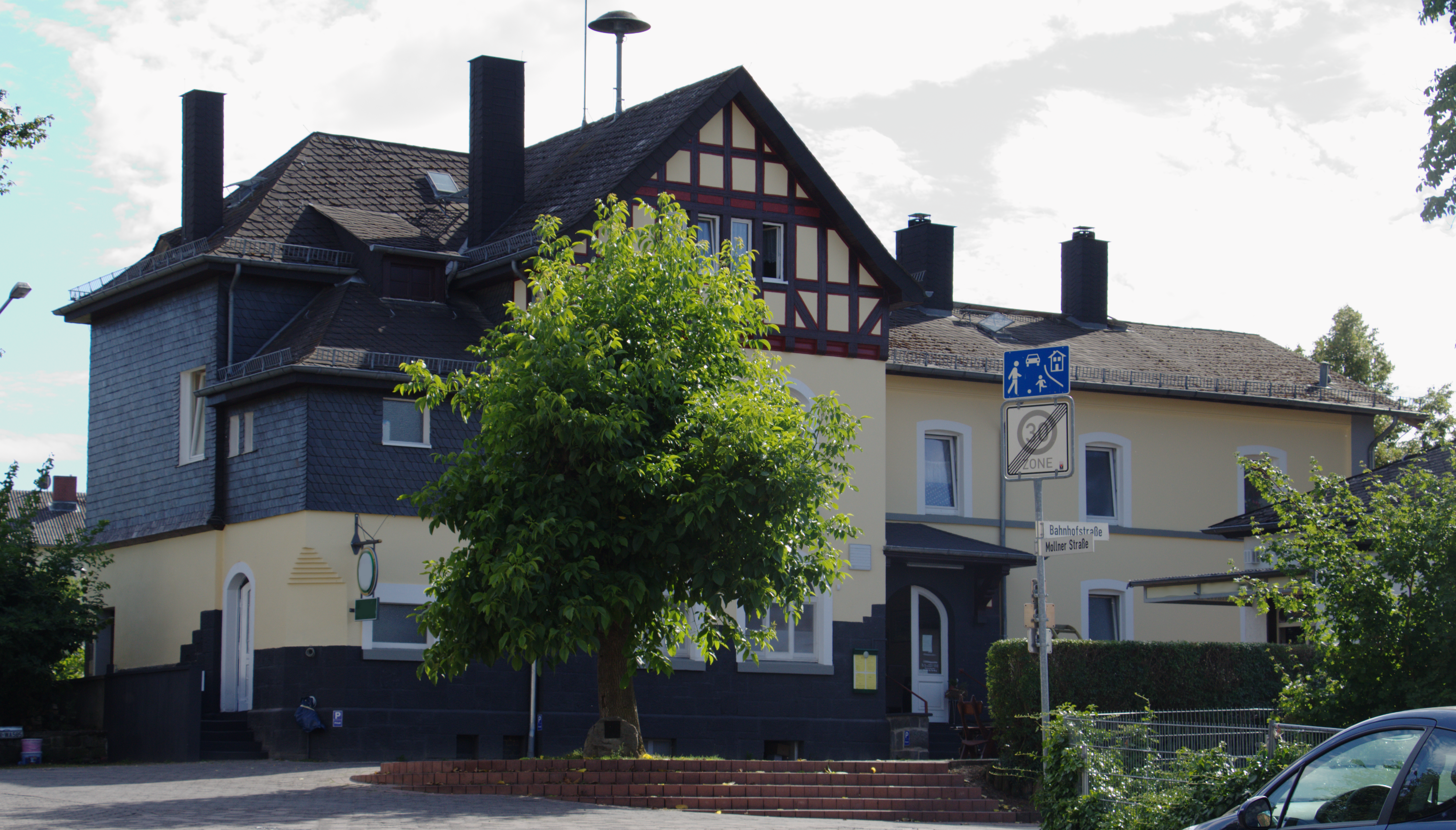 Building (railway station) in Grossen-Buseck, Bahnhofstrasse / Gießen / Hesse / Germany